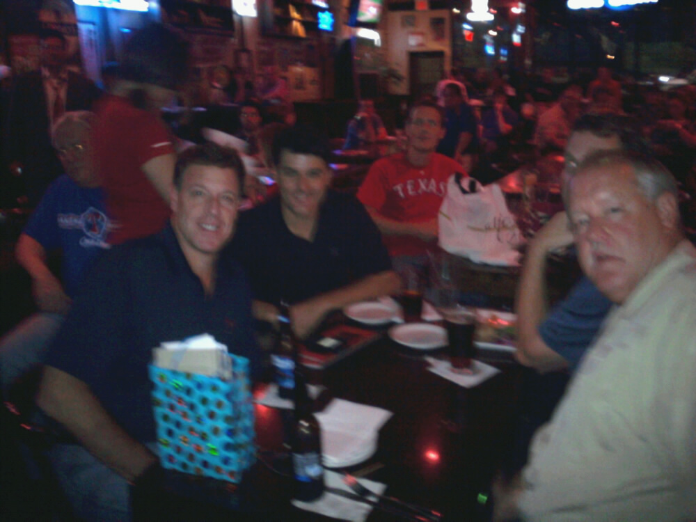 Owner Chuck Greenberg, announcer Chuck Morgan, and Rangers blogger Jamey Newberg pose for fans at a Rangers watching party in Arlington, TX